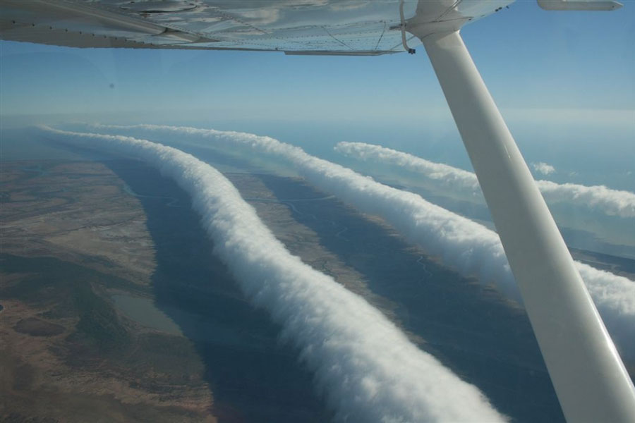 A picture of Morning Glory Clouds, from Gulf of Carpentaria, Australia.